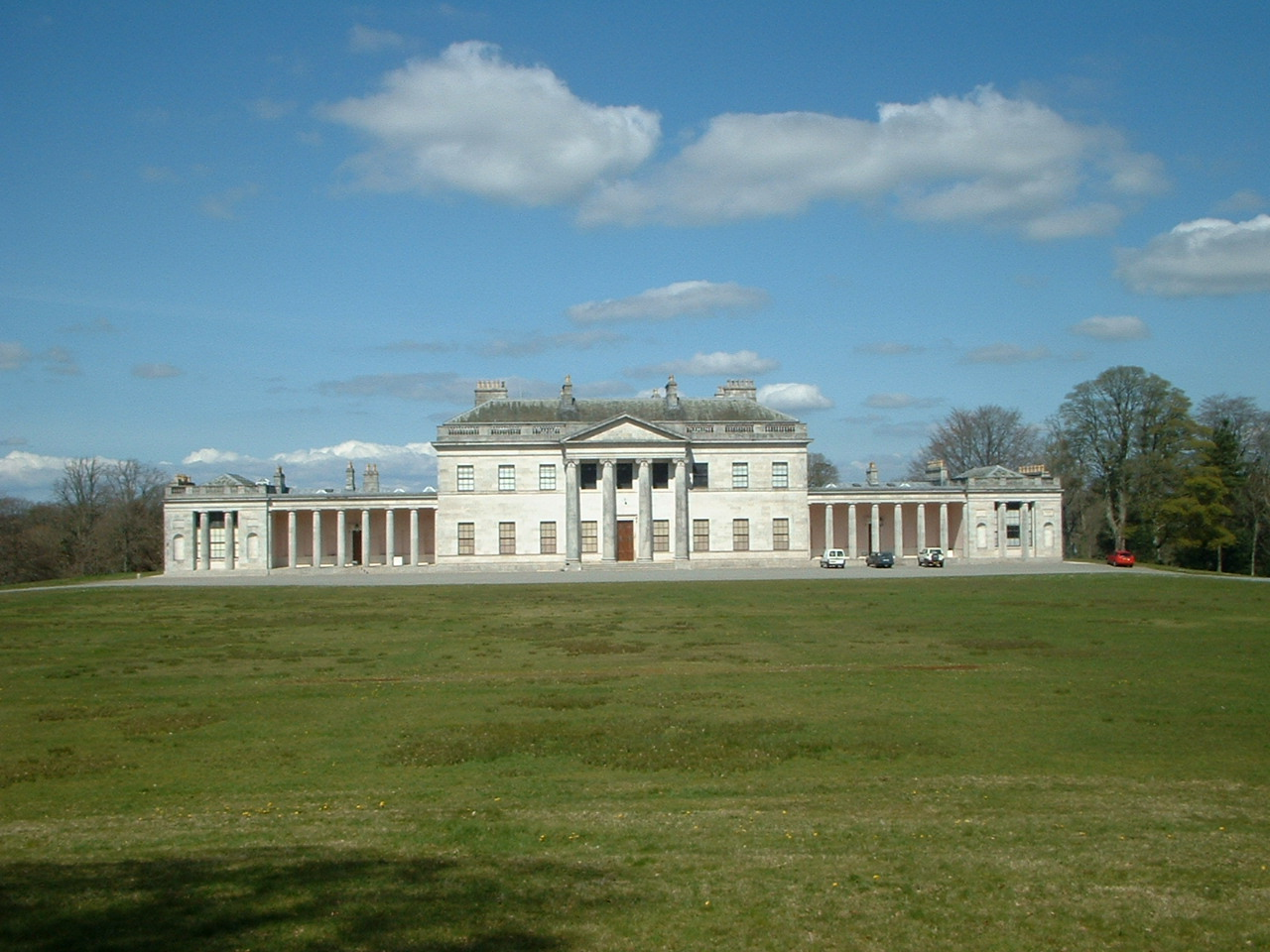 Castle Coole frontage, Enniskillen, Northern Ireland.